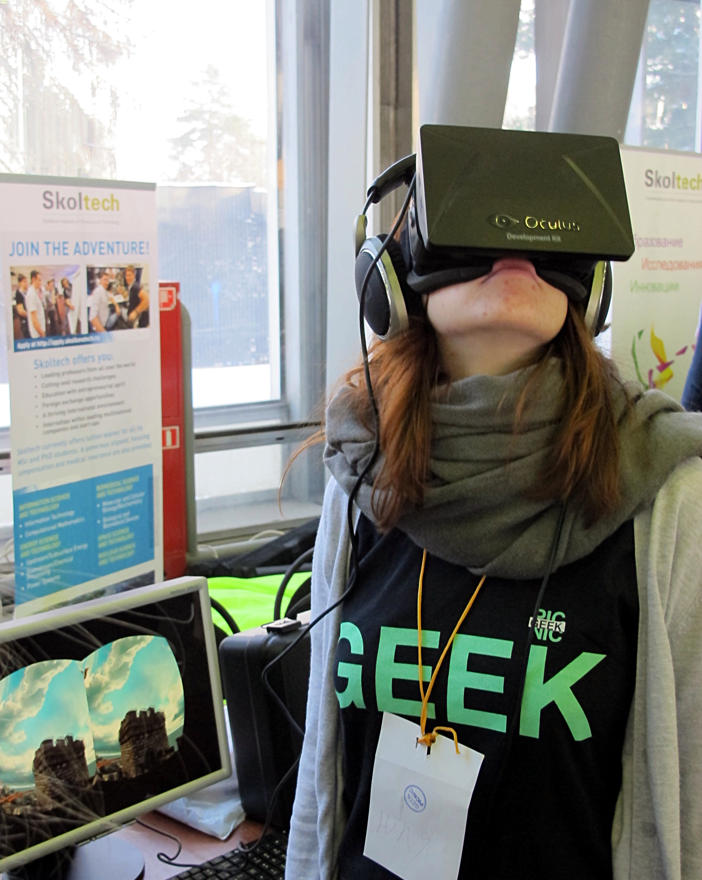 Geek Picnic (Moscow; 2014-01-26)